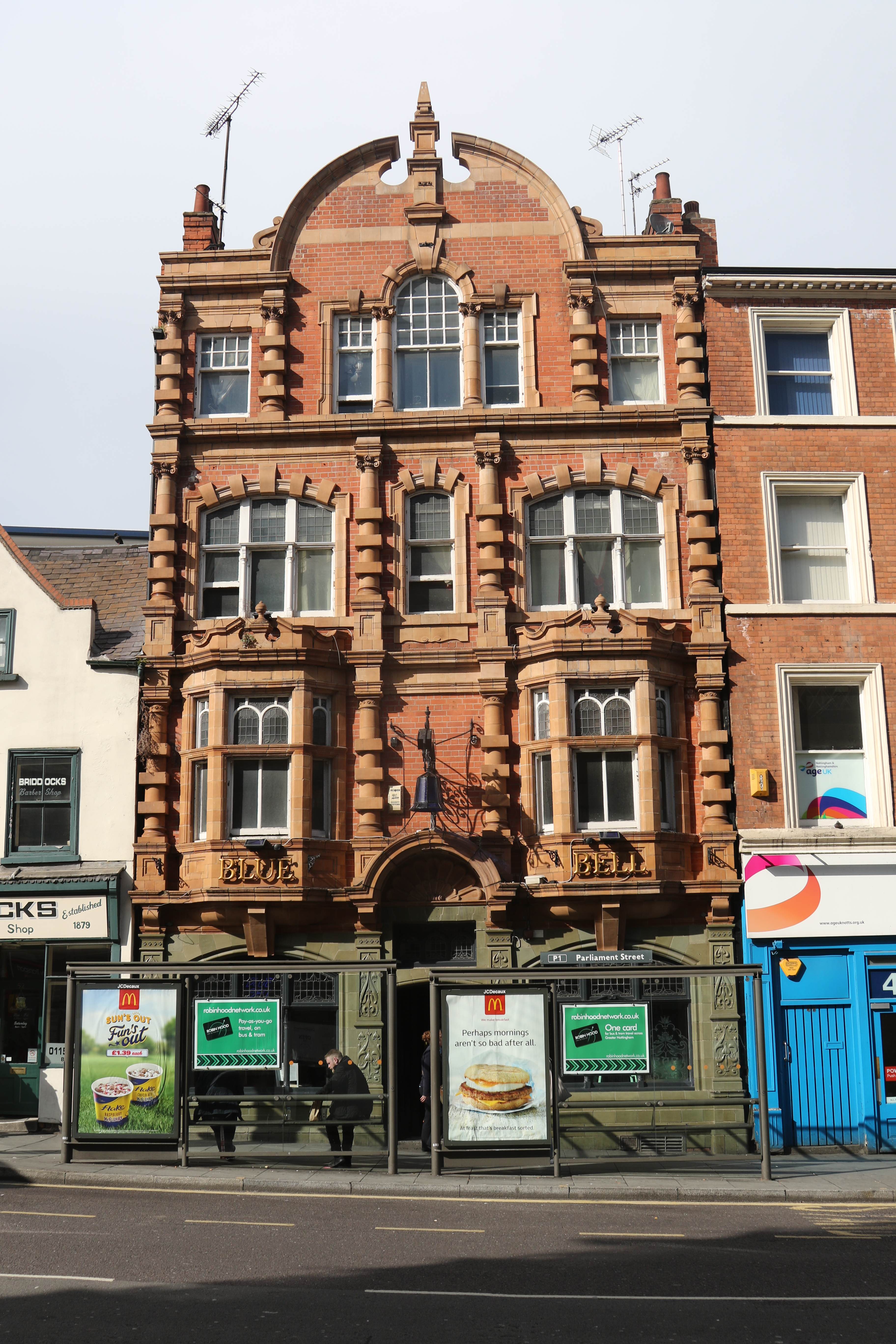 50 Upper Parliament Street, Nottingham Built by Hedley J. Price in 1904. (Rear elevation on Forman Street is by W.B. Starr and Hall dating from 1925).